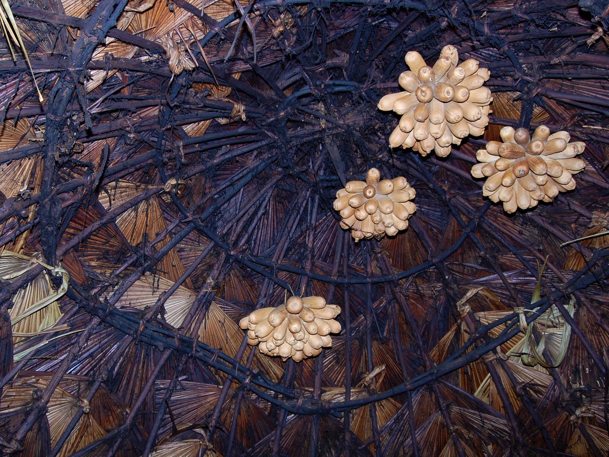 Corn bunch, hanging high under the lopo (traditional Timorese barn) canopy made of Corypha leaves. Ayotupas, West Timor, Indonesia.